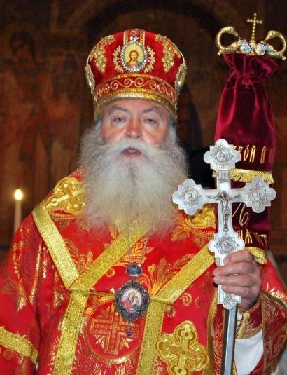 Ловчански митрополит гавриил